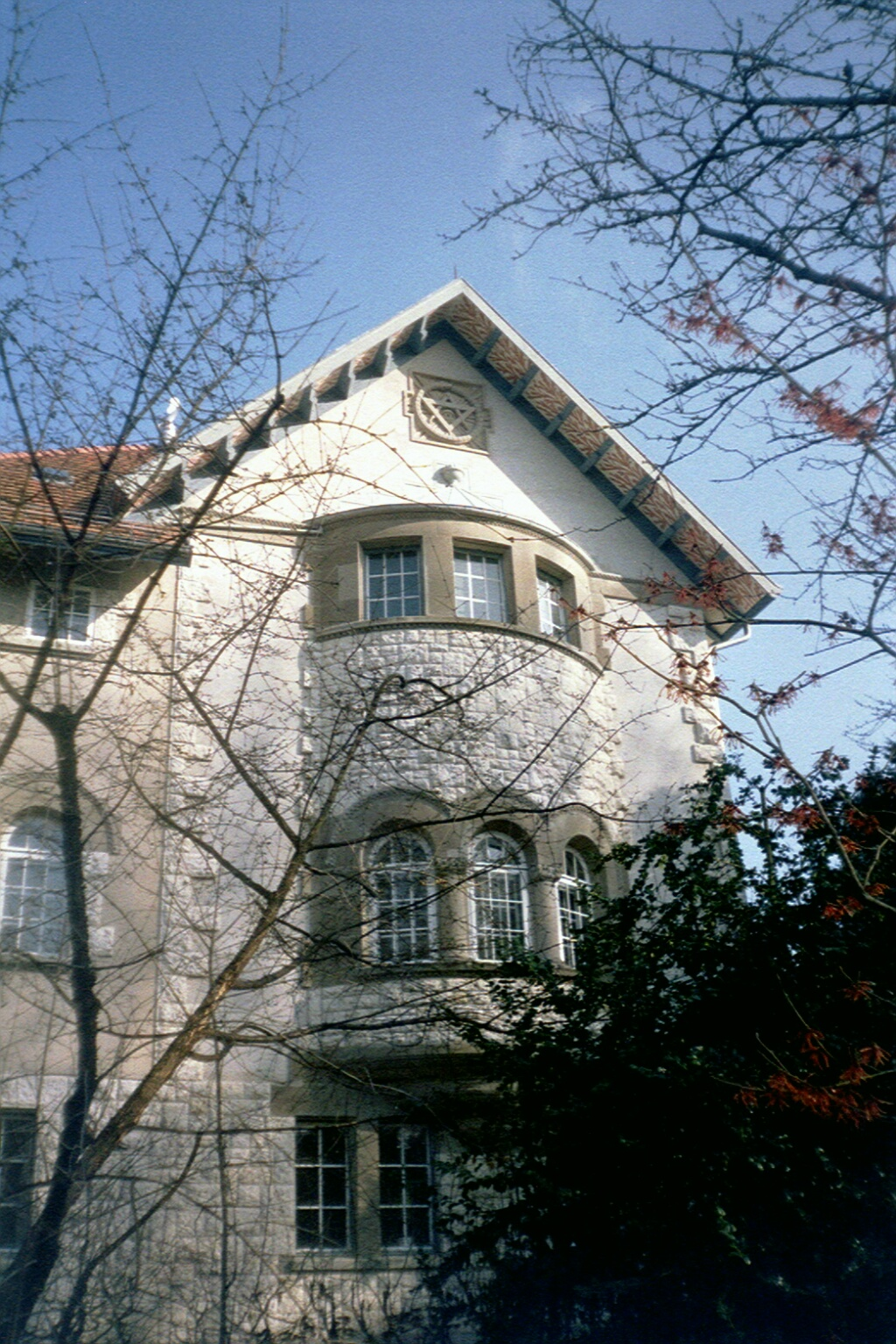 Massonic loge in Winterhur